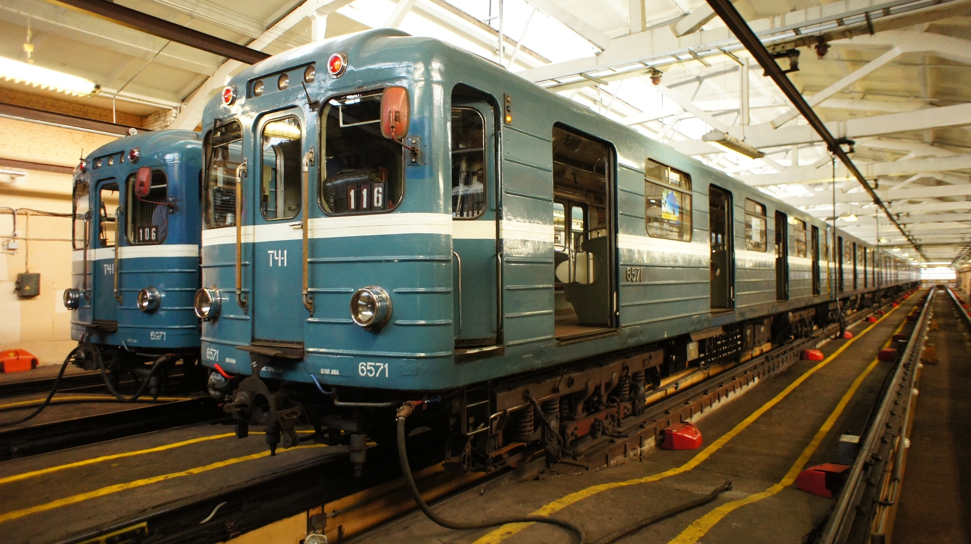 Subway trains Em in depot Avtovo